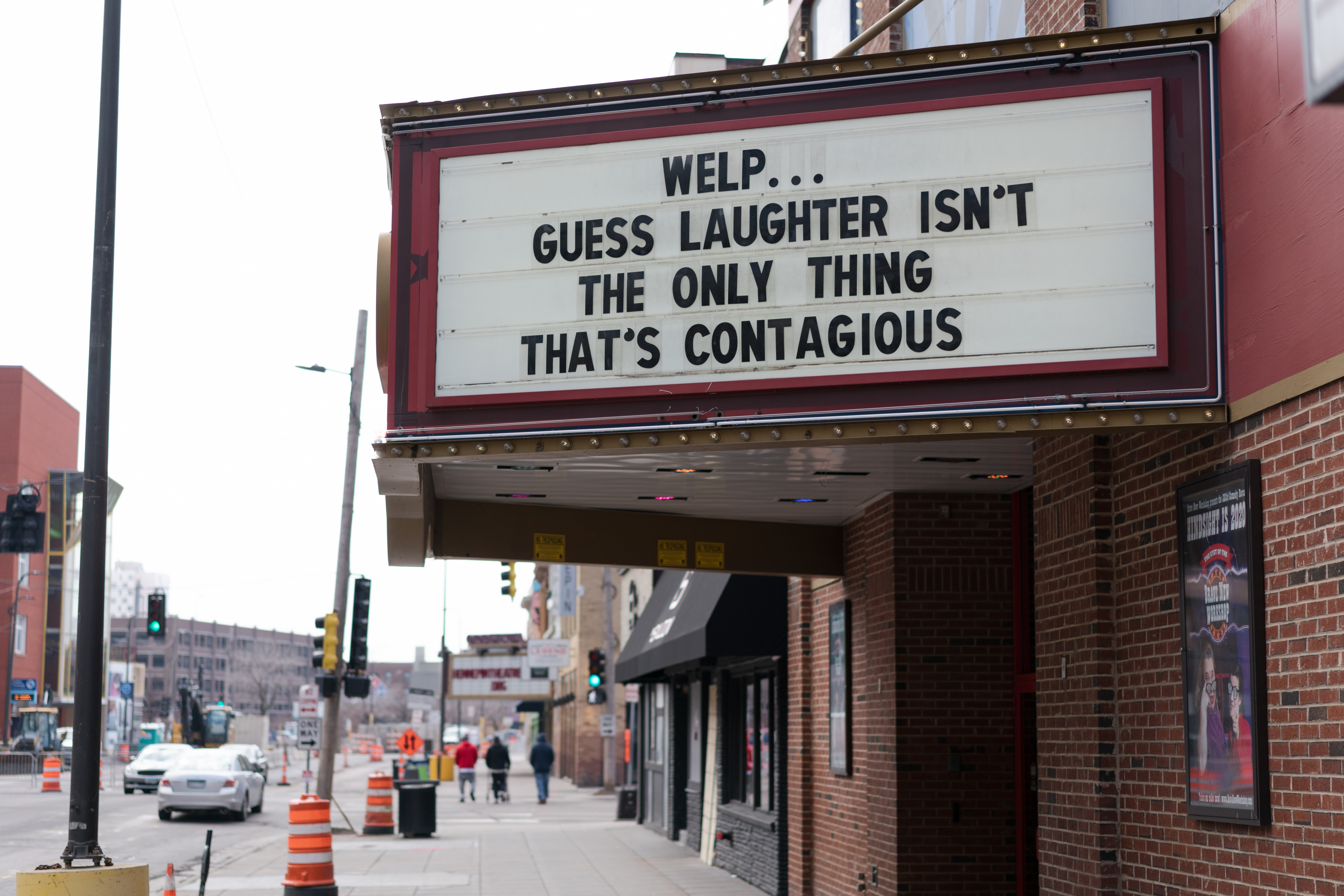 A comedy theater marquee referencing coronavirus in Minneapolis, Minnesota